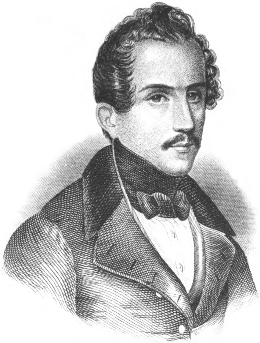 Ljudevit Gaj (1809-1872), Croatian linguist, politician, journalist and writer